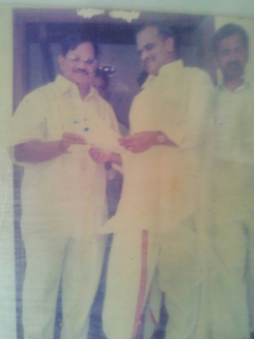 Chilamkurthi Veeraswamy with Rajasehkar reddy, former chiefminister of andhra pradesh